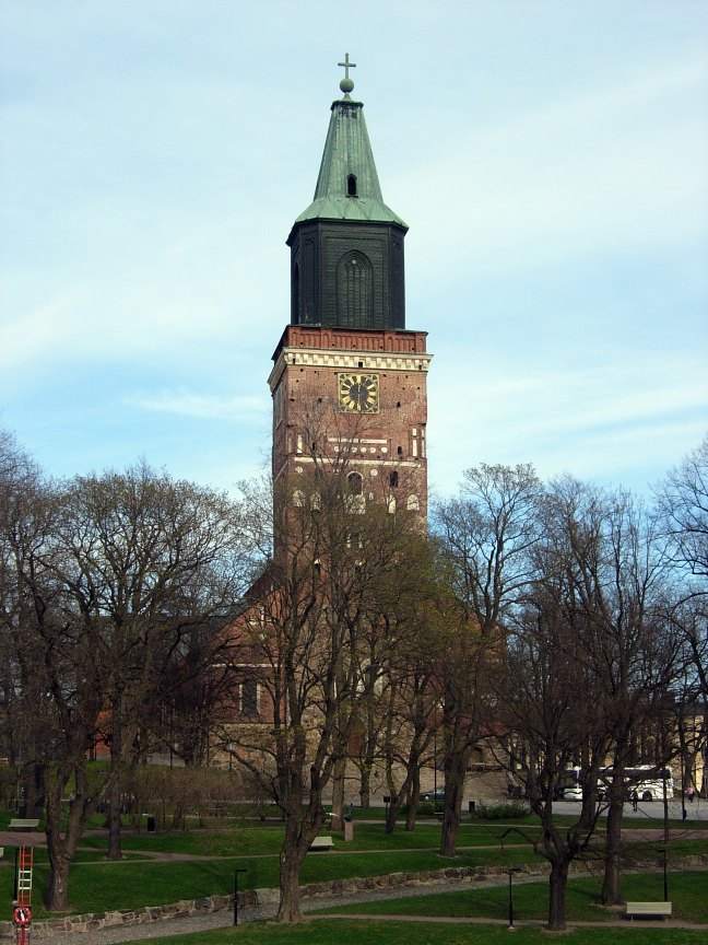 Cathedral of Turku